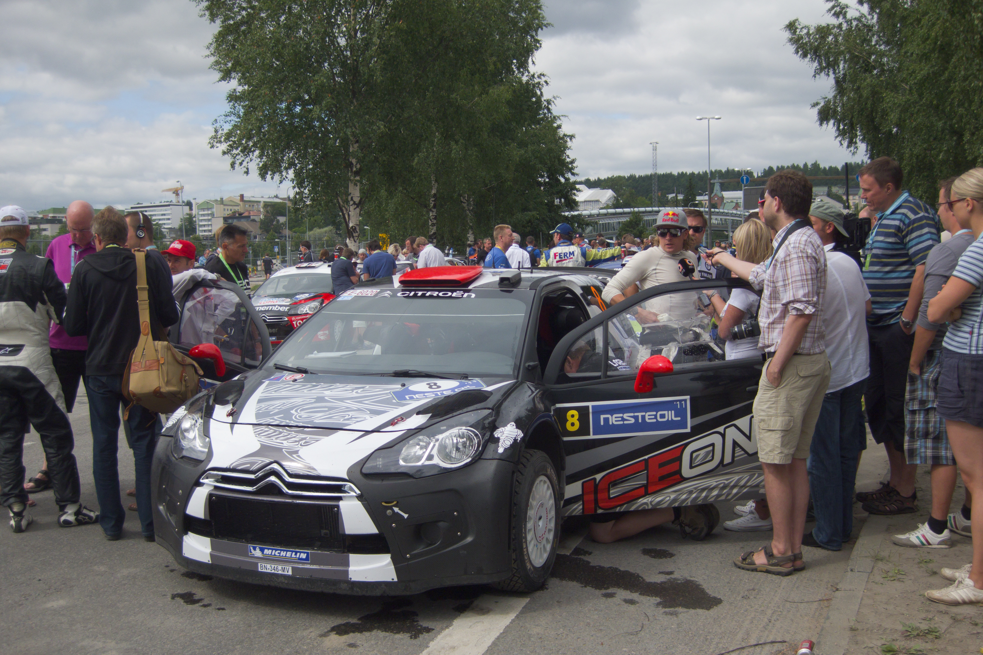 The queue before TC16A during Rally Finland 2011. Kimi Räikkönen.